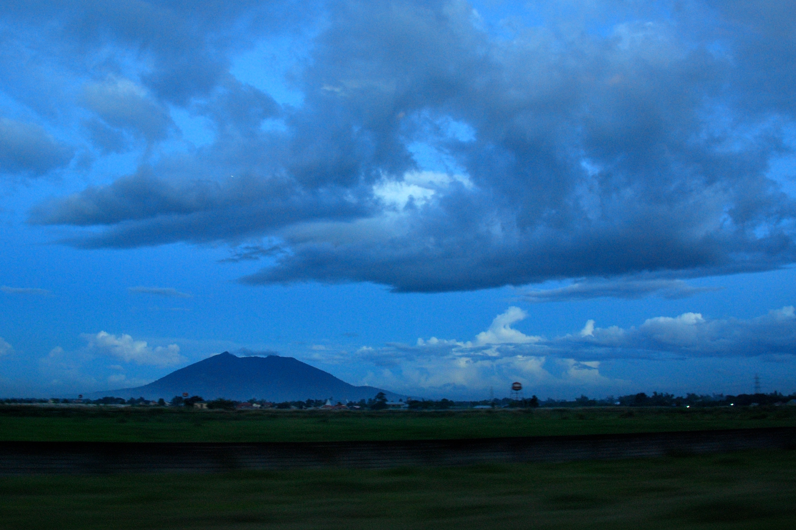 twilight shot from Victory Liner bus traveling at 100 kph